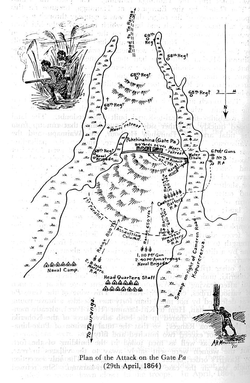 Plan of the attack on Gate Pa (29th April, 1864)